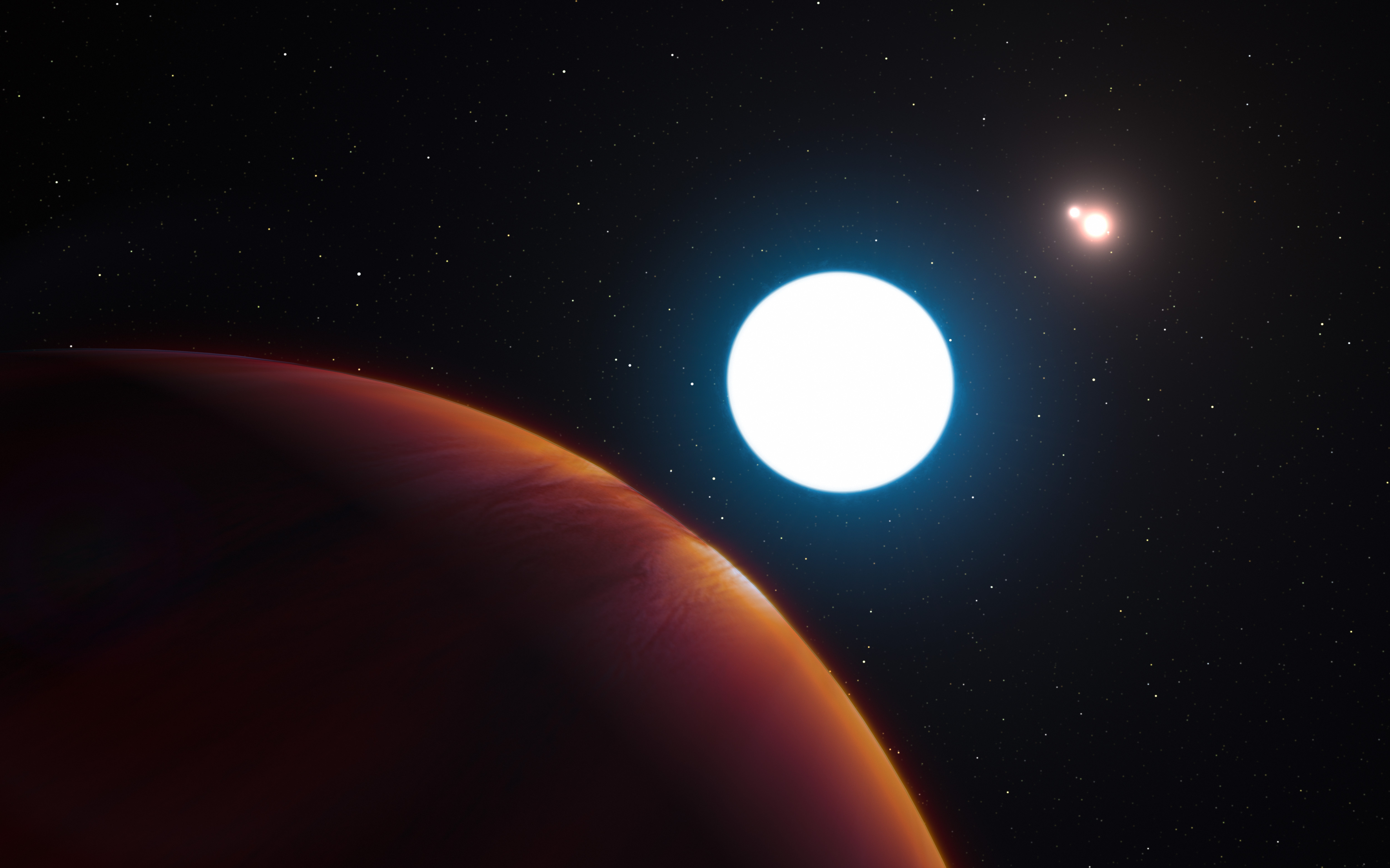 This artist's impression shows a view of the triple-star system HD 131399 from close to the giant planet orbiting in the system. The planet is known as HD 131399Ab and appears at the lower-left of the picture. Located about 320 light-years from Earth in the constellation of Centaurus (The Centaur), HD 131399Ab is about 16 million years old, making it also one of the youngest exoplanets discovered to date, and one of very few directly imaged planets. With a temperature of around 580 degrees Celsius and an estimated mass of four Jupiter masses, it is also one of the coldest and least massive directly-imaged exoplanets.